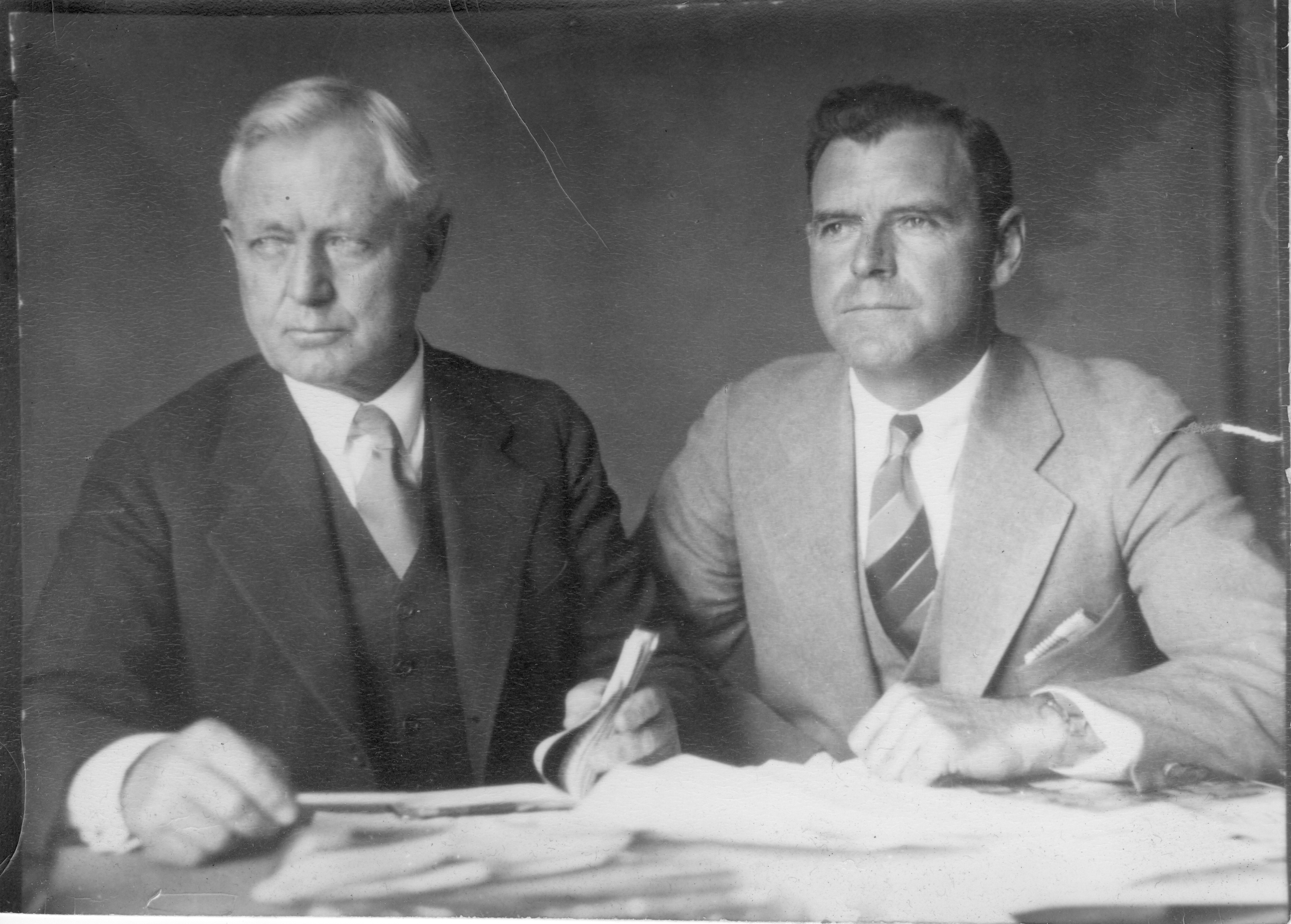 Frederick Russell Burnham and his eldest son Roderick Deane Burnham. Preparing to return to Africa as part of a wild game conservation study. Story printed in the Los Angeles Times on page B1 (Apr 14, 1929)